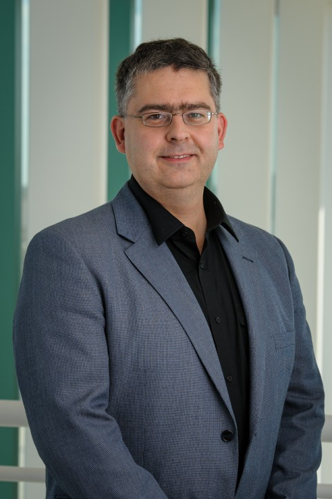 László Kürti